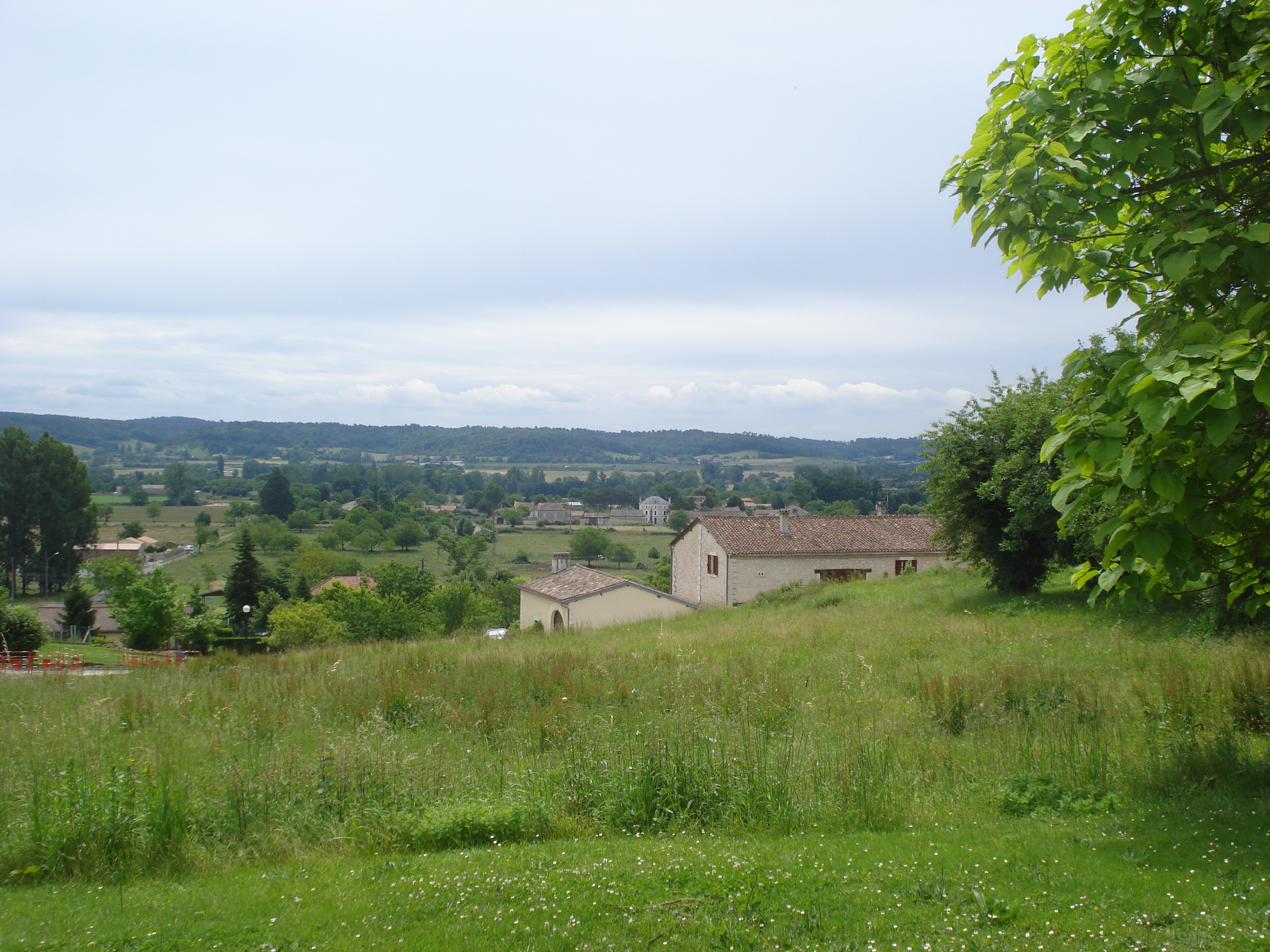 Landscape seen from Douzillac (Dordogne, Fr).